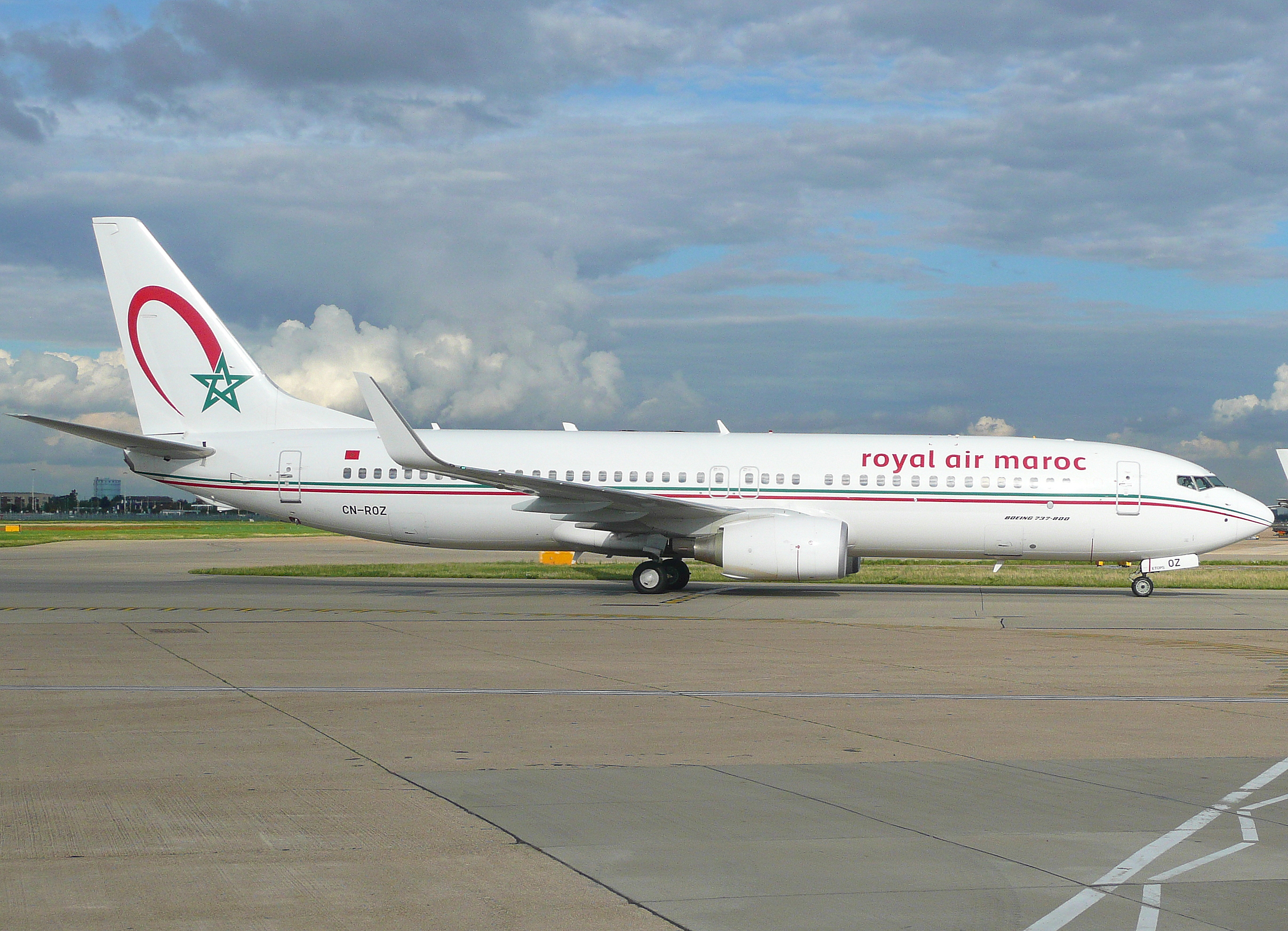 CN-ROZ B738 RAM after vacating runway 27R.